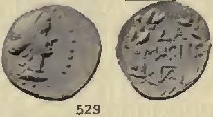 Greek coins and their parent cities (1902) Author: Ward, John, 1832-1912; Hill, George Francis, Sir, 1867-1948 Subject: Coins, Greek; Numismatics, Greek; Greece -- Description, geography; Italy -- Description and travel; Turkey -- Description and travel Publisher: London : Murray Possible copyright status: NOT_IN_COPYRIGHT Language: English Call number: AKB-0671 Digitizing sponsor: MSN Book contributor: Robarts - University of Toronto Collection: toronto Scanfactors: 7